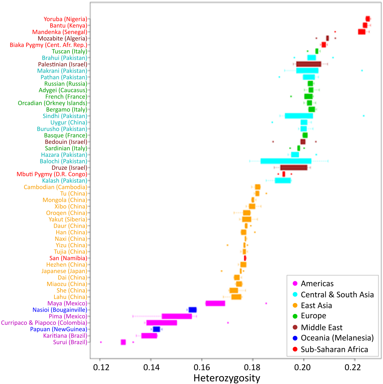 Box-and-whisker plot of heterozygosity values for each group, based on a pruned dataset of 220,247 SNPs in which SNPs in high LD were removed. 250 individuals from 51 worldwide populations in the Human Genome Diversity Panel (HGDP-CEPH) were analysed. Sub-Saharan African populations have the highest genetic diversity values in the world.